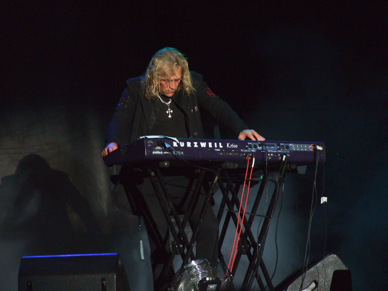 The American keyboardist Scott Warren performing with the tribute formation DIO Disciples at Kavarna Rock Fest 2012.